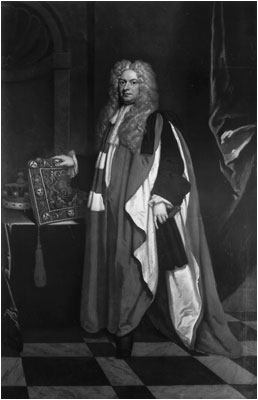 Lord Chancellor of Great Britain from 1718 to 1725.